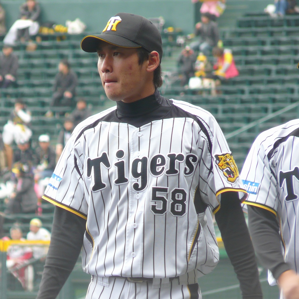 Fumiya Araki, infielder of the Hanshin Tigers, at Hanshin Koshien Stadium.